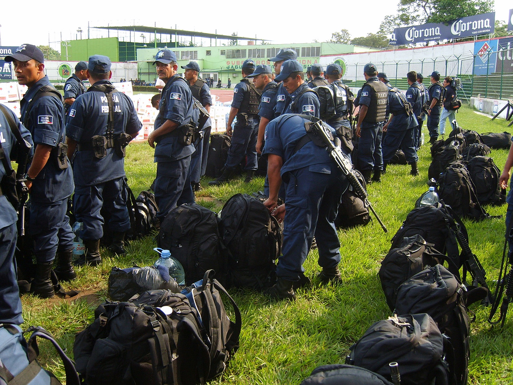 Elements of the federal police getting ready to be sent to different comunities